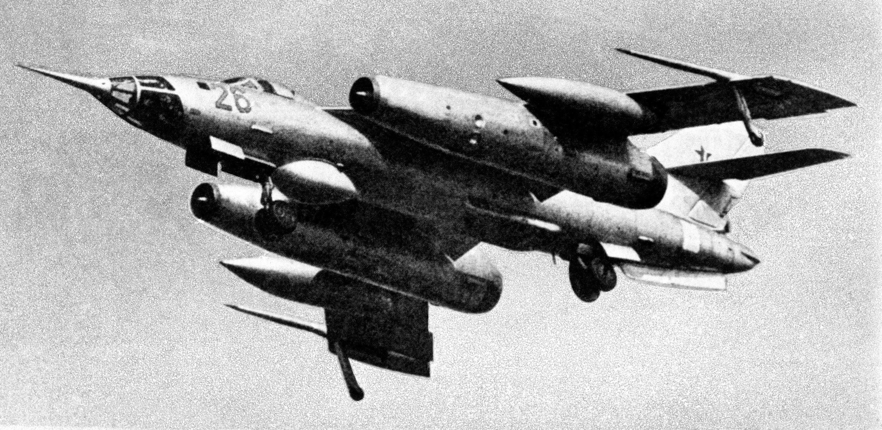 A left underside view of a Soviet Yak-28 Brewer-C aircraft. Date Shot: 26 Mar 1985 Cropped caption: Version of the Yak-28 known to NATO as 'Brewer-C' (Flug Revue)